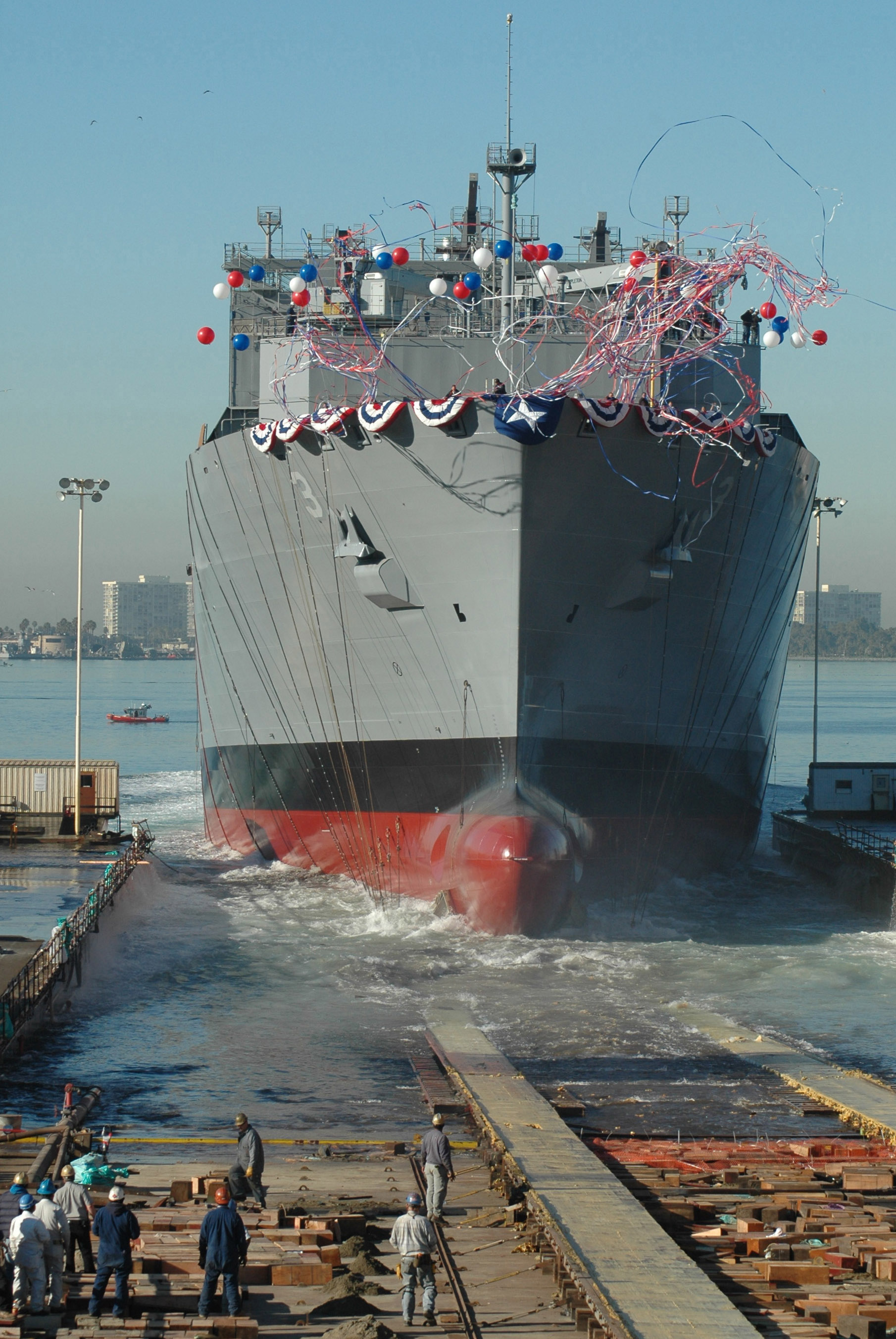 San Diego (Dec. 6, 2006) — After officially christening the newest resupply ship, Military Sealift Command (MSC) advanced auxiliary dry cargo/ammunition ship USNS Alan Shepard (T-AKE-3), she is launched into the San Diego Bay during a christening and launching ceremony held at the National Steel and Shipbuilding Company (NASSCO). The Shepard is named after Rear Adm. Alan Bartlett Shepard, who was the first American astronaut in space and the fifth person to walk on the moon. The Shepard is the third of the USNS ships named after great explorers. Its primary mission will be to deliver ammunition, fuel, food and other supplies to combat ships at sea.